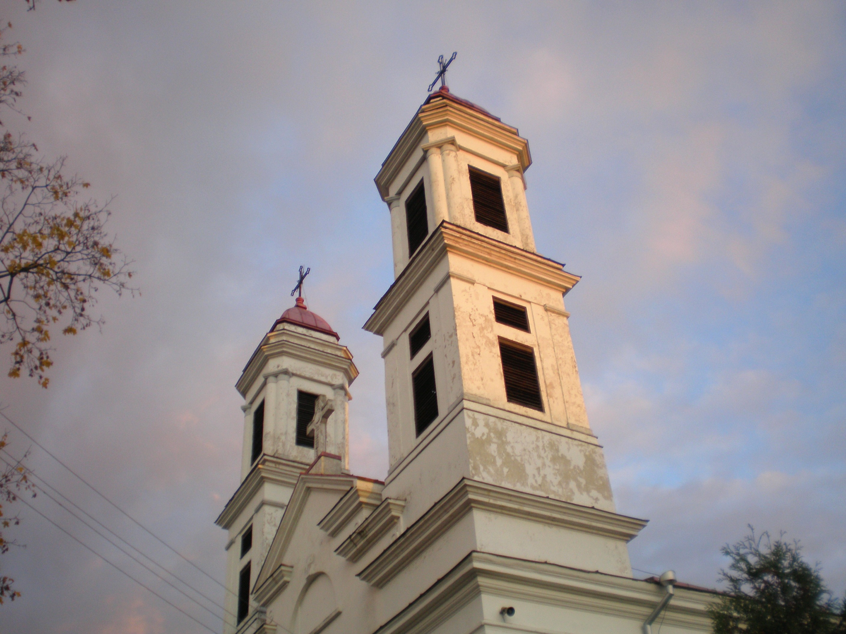 The church of Jonava